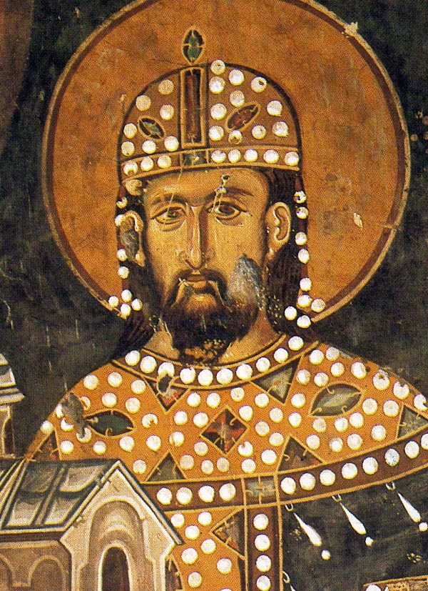 Detail of the fresco depicting King Stefan Dragutin, the ktitor of the St. Achillius church in Arilje, Serbia. Dated 1296.